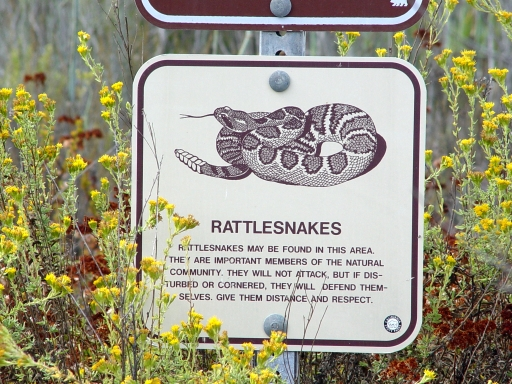 Rattlesnakes warning sign along road leading to trail into Los Penasquitos marsh trail